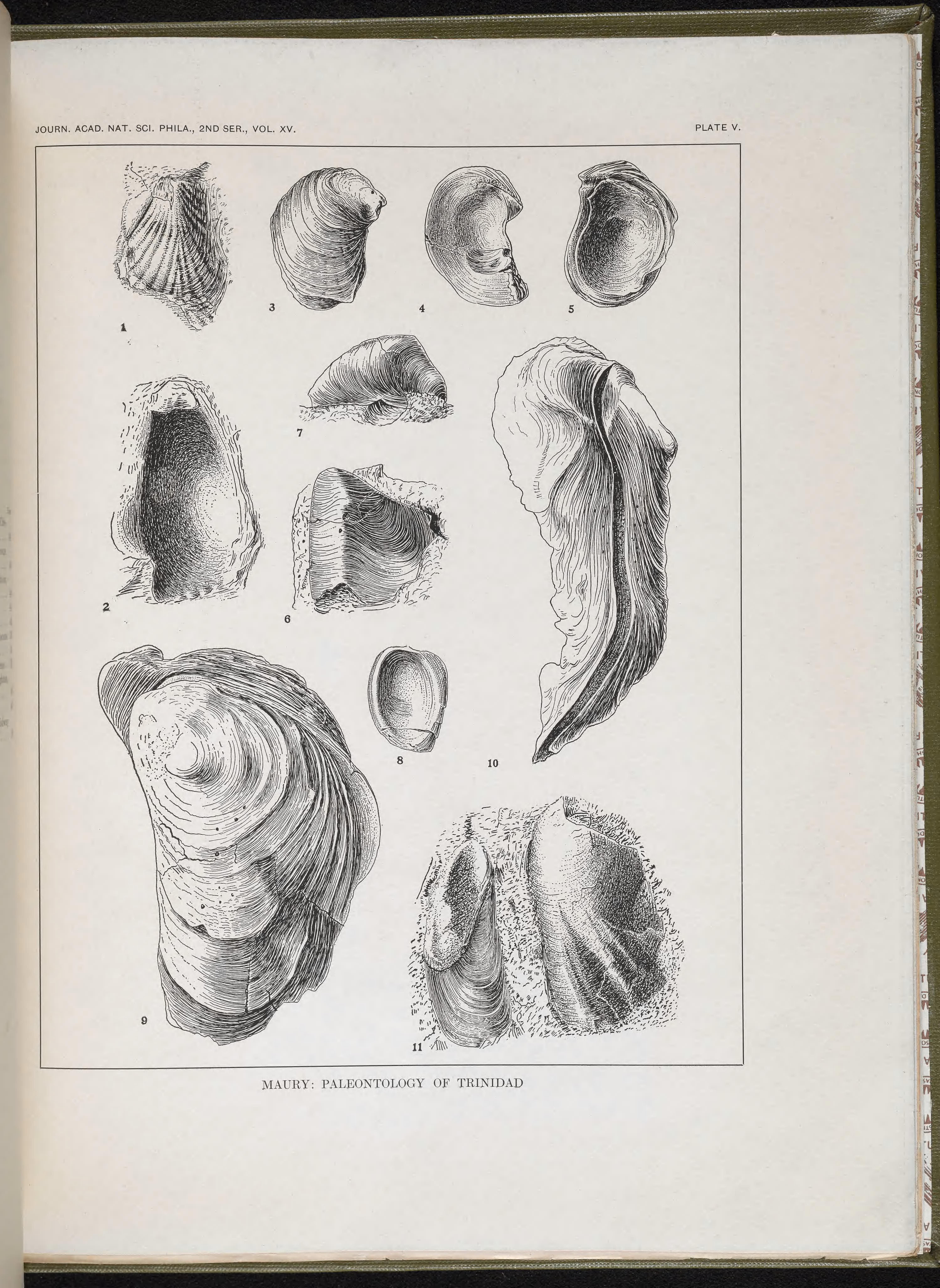 A contribution to the paleontology of Trinidad